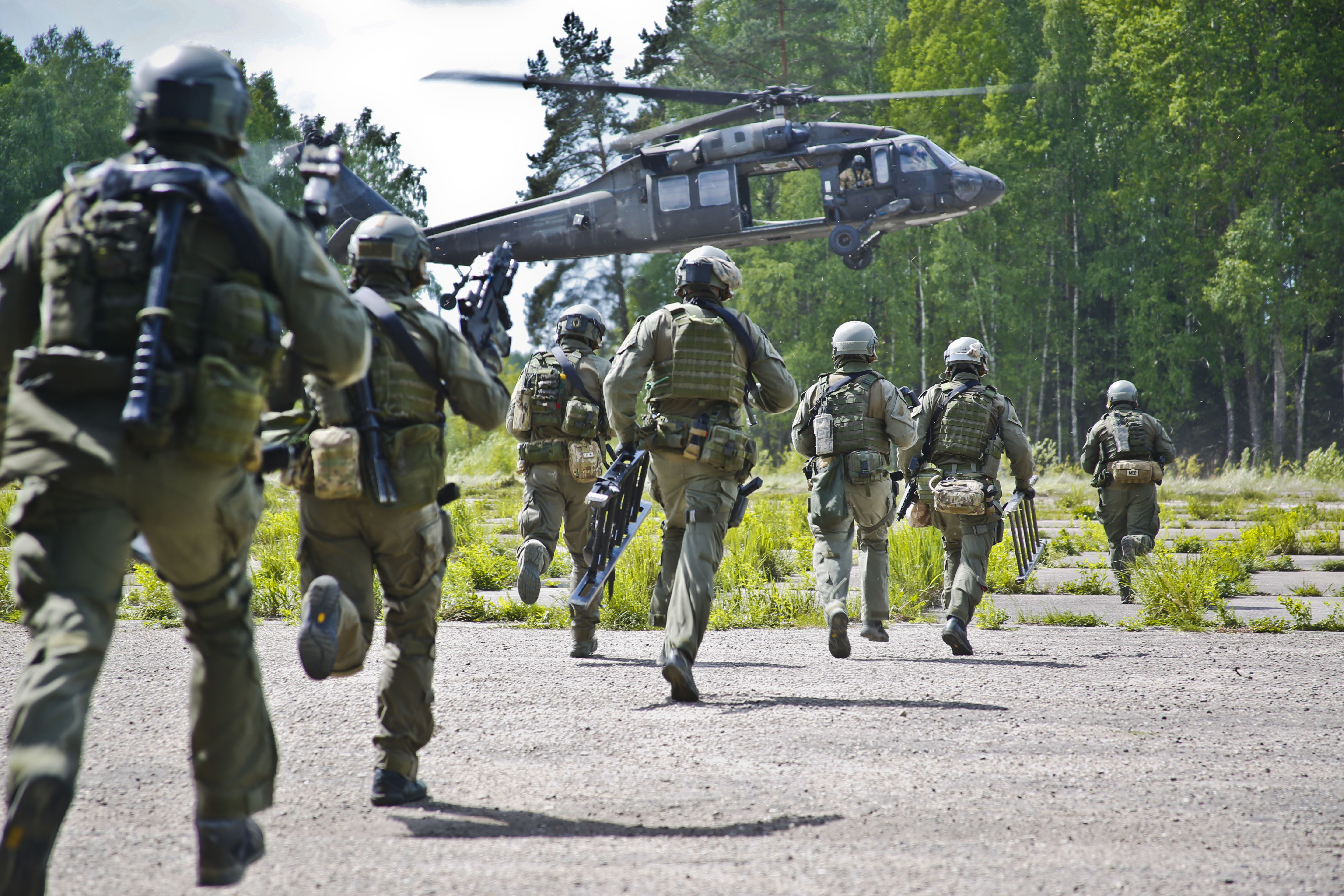 After raiding an objective, Soldiers from Lithuania’s Special Purpose Service Counter-Terrorism unit are exfiltrated on U.S. Army UH-60 Blackhawk helicopters during Exercise Flaming Sword in Panevėžsy, Lt., May 19, 2016. Since 2012, Lithuanian SOF has organized Exercise Flaming Sword with NATO SOF and allied Partners.The aim of this exercise is to train SOF elements at the Special Operations Task Group level to improve interoperability between regional partners. Unit: U.S. Special Operations Command Europe